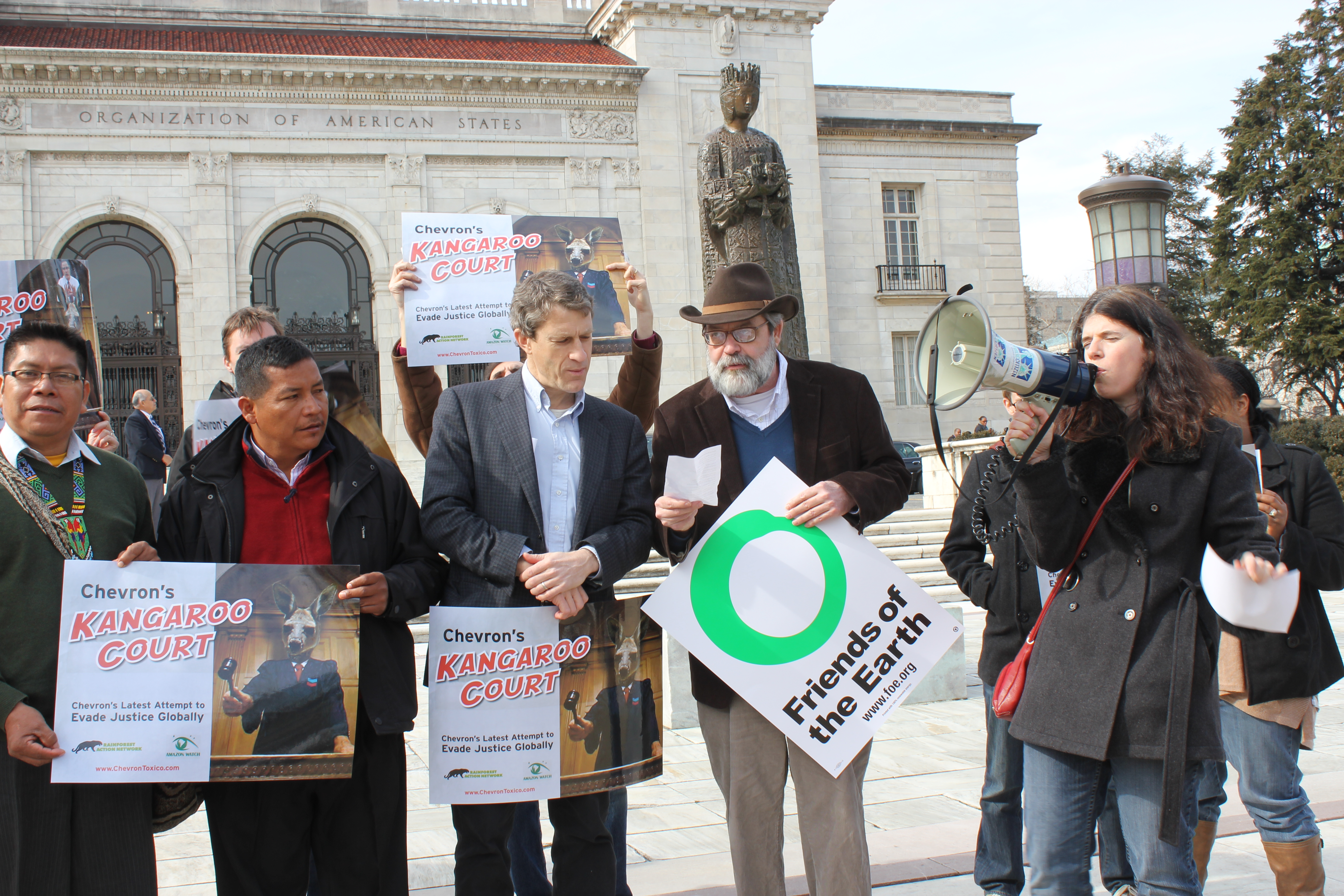 Friends of the Earth, US rally in Ecuador